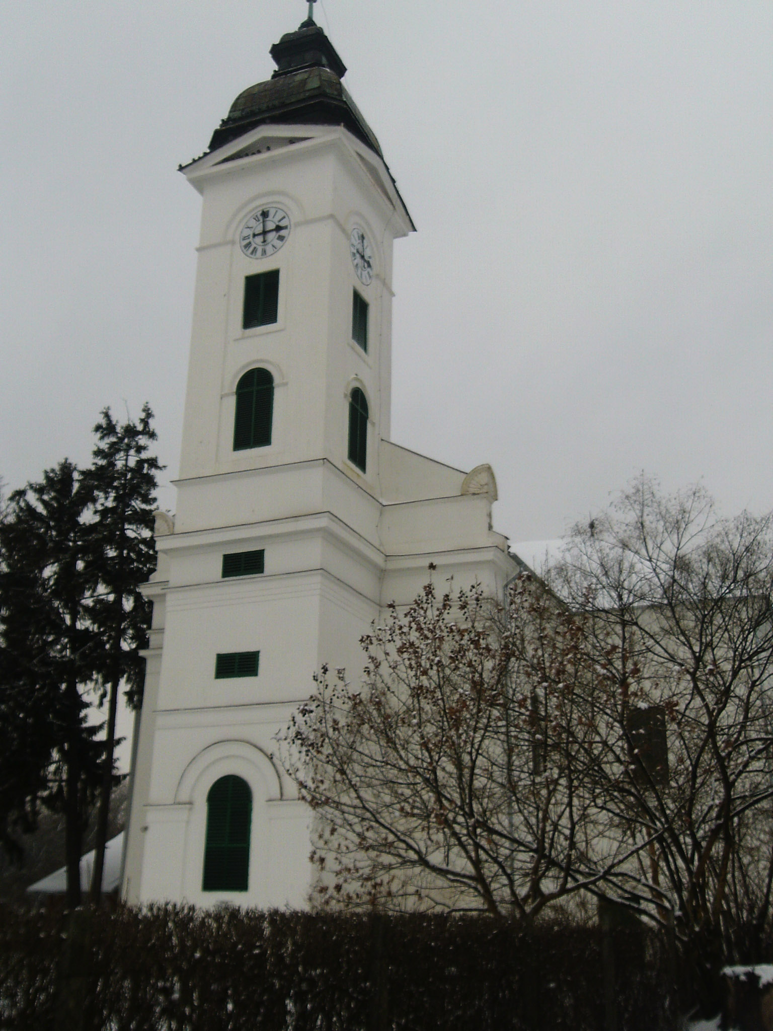 Dunavecse, Hungary